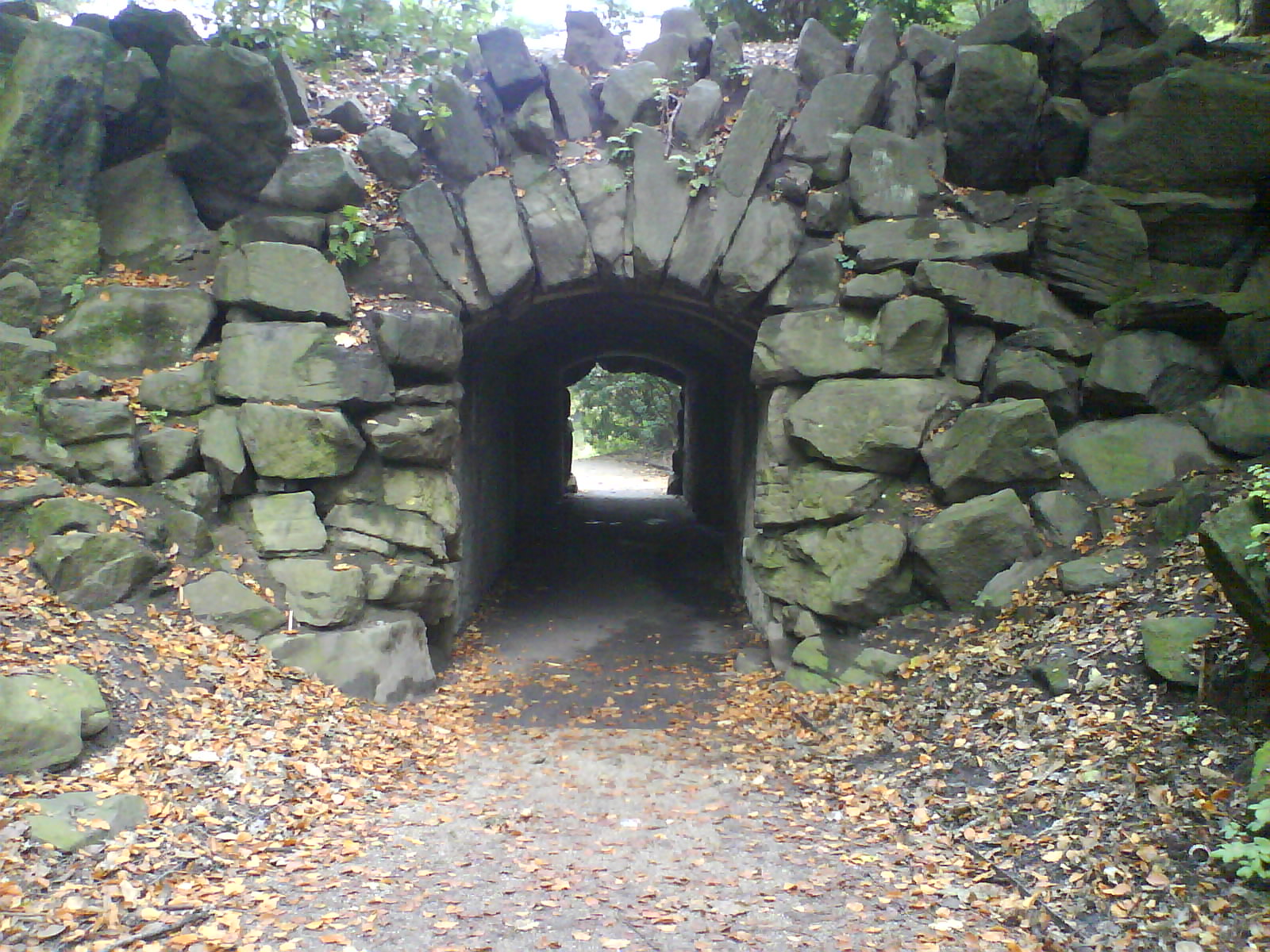 The Tunnel in Heaton Park, Manchester